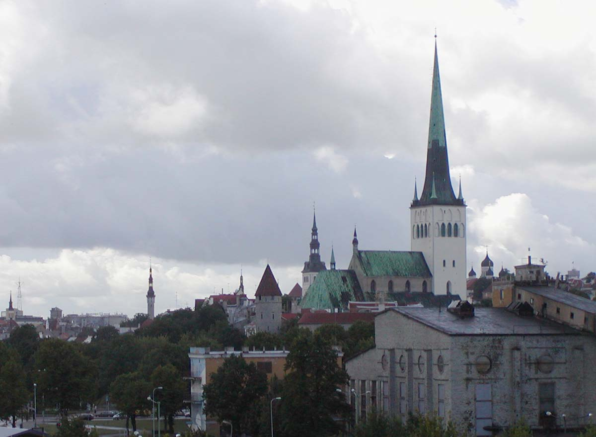 Photo of Tallinn church spires